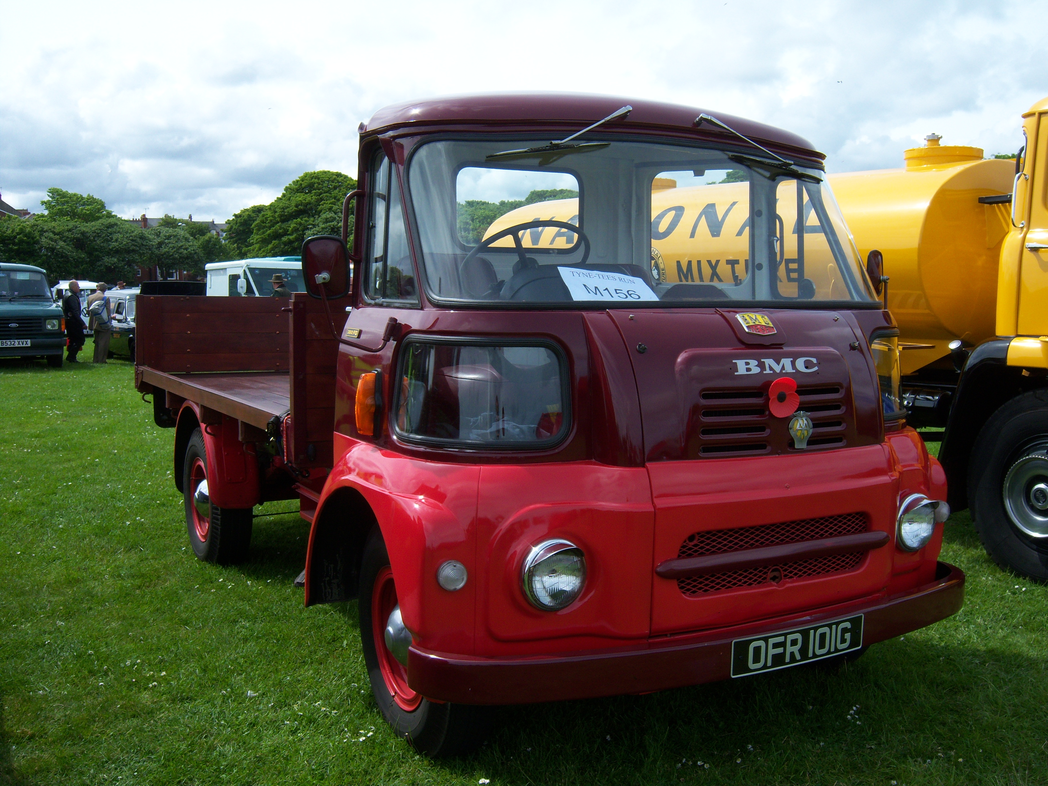 A 1969 BMC 360FG (reg. OFR 101G) dropside lorry, pictured at the end of the 2012 HCVS Tyne-Tees Run.